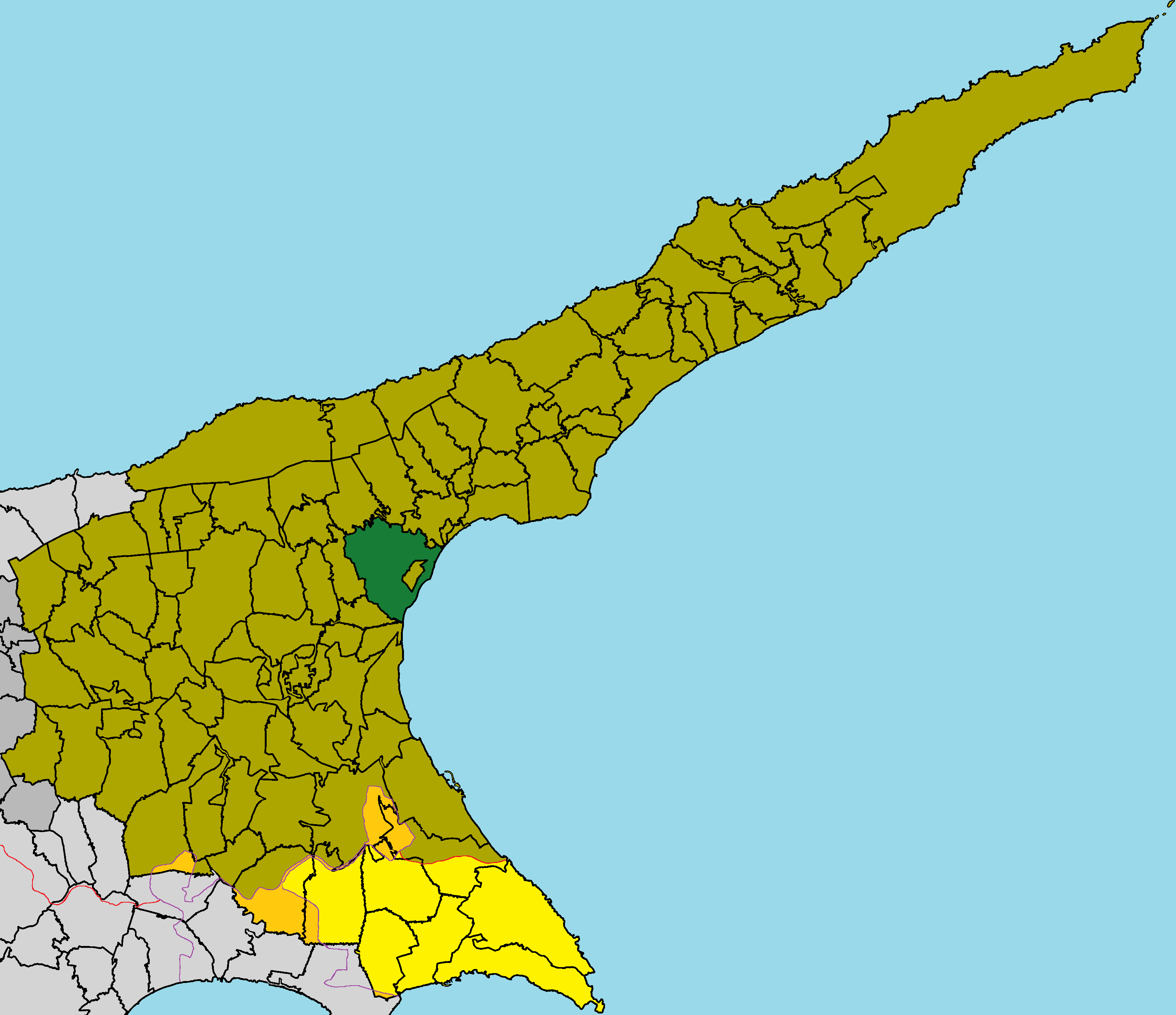 Trikomo in Famagusta District (de jure).